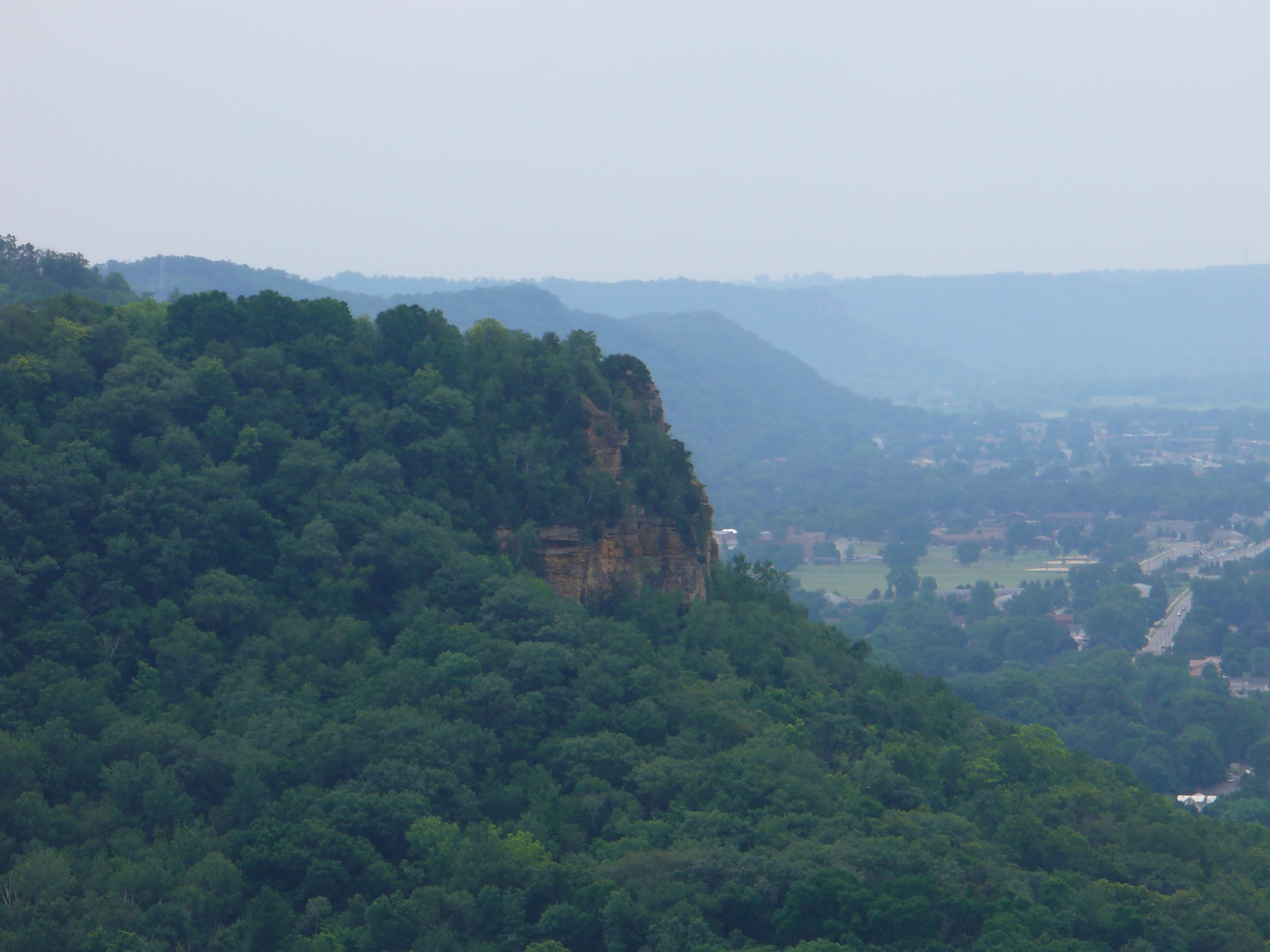 A picture of a bluff, taken in La Crosse, WI